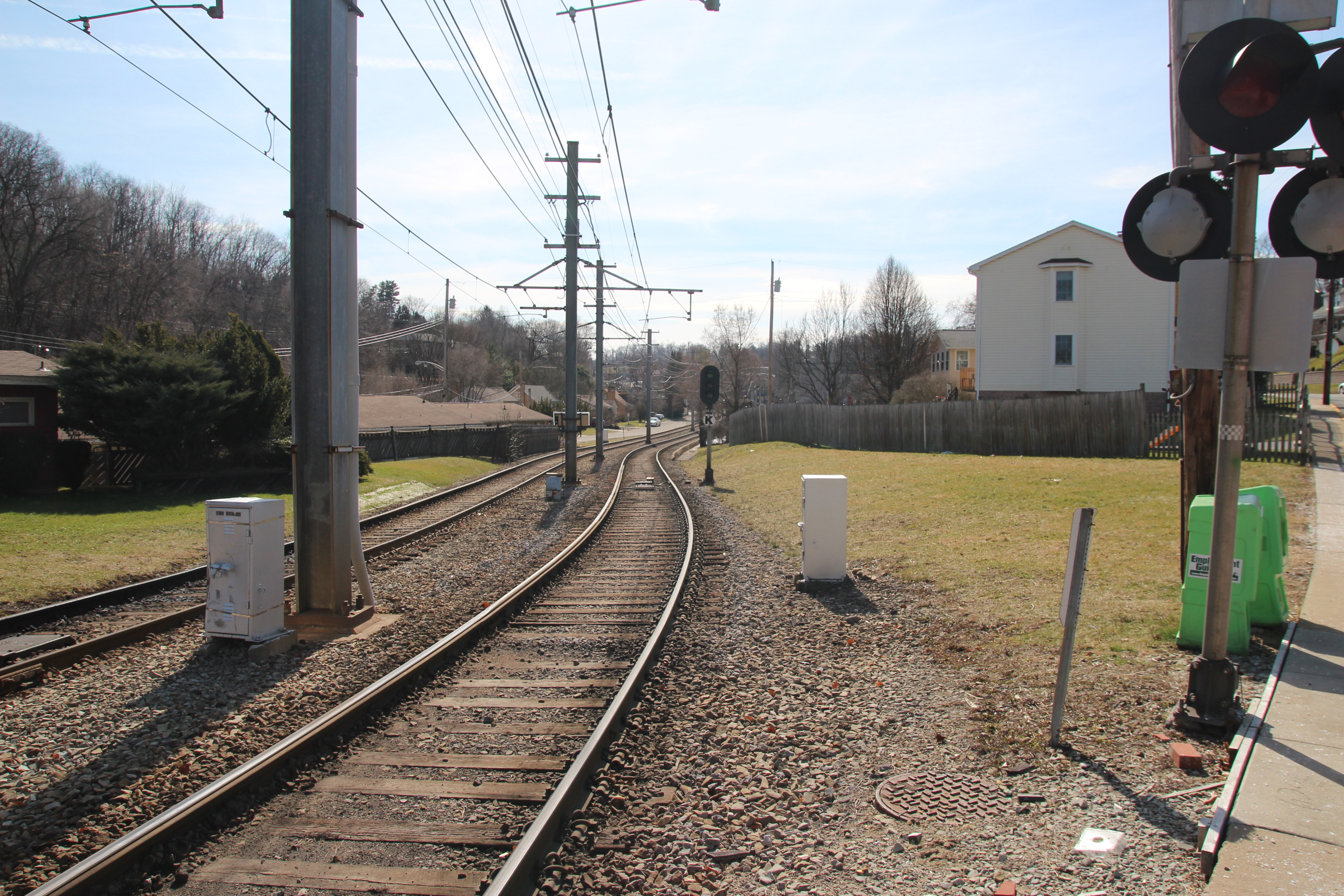 The former Martin Villa station, closed in 2012, seen in 2017. Nothing remains.